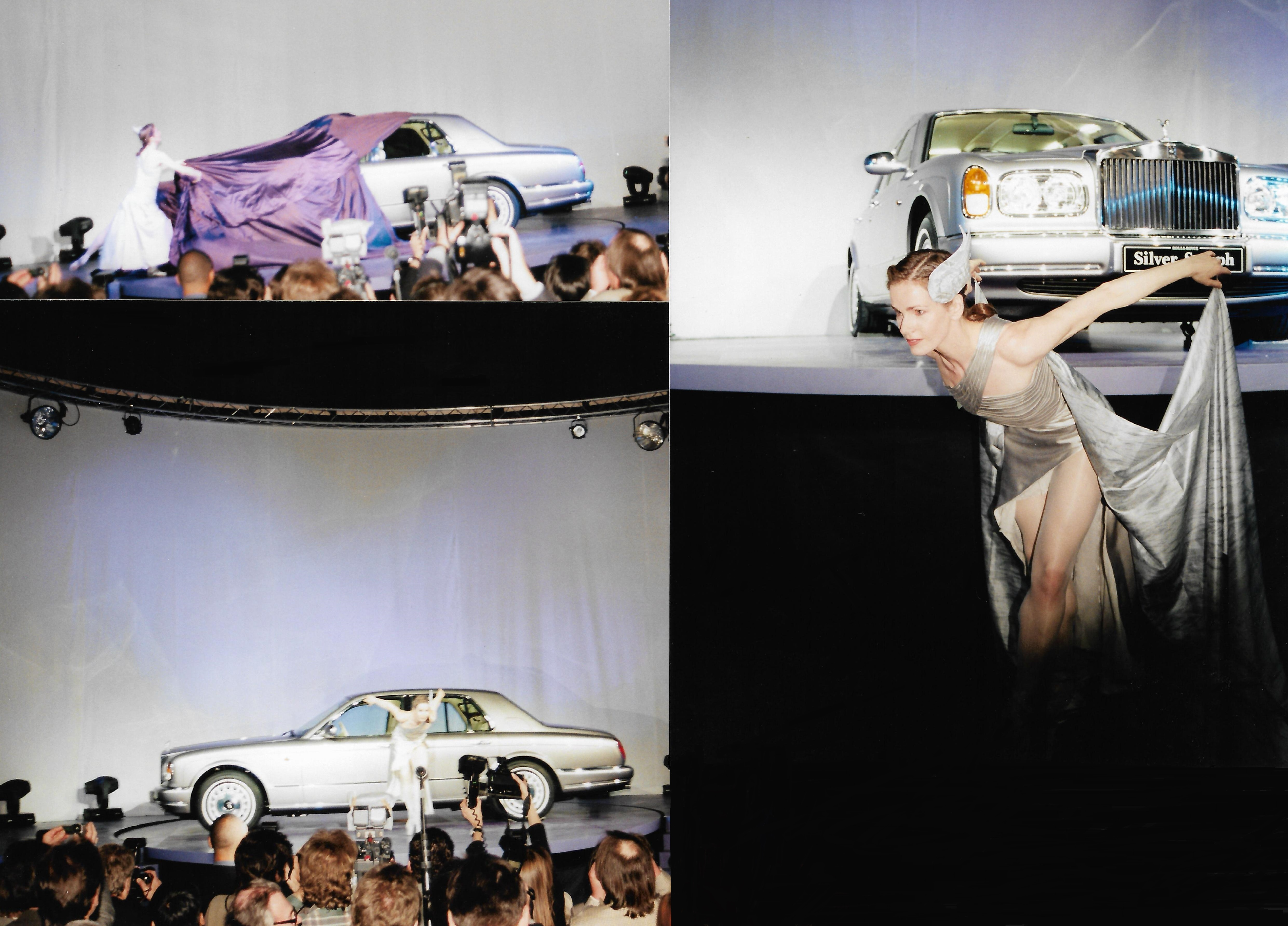 The launch of the Silver Seraph at the 1998 Geneva Motor Show